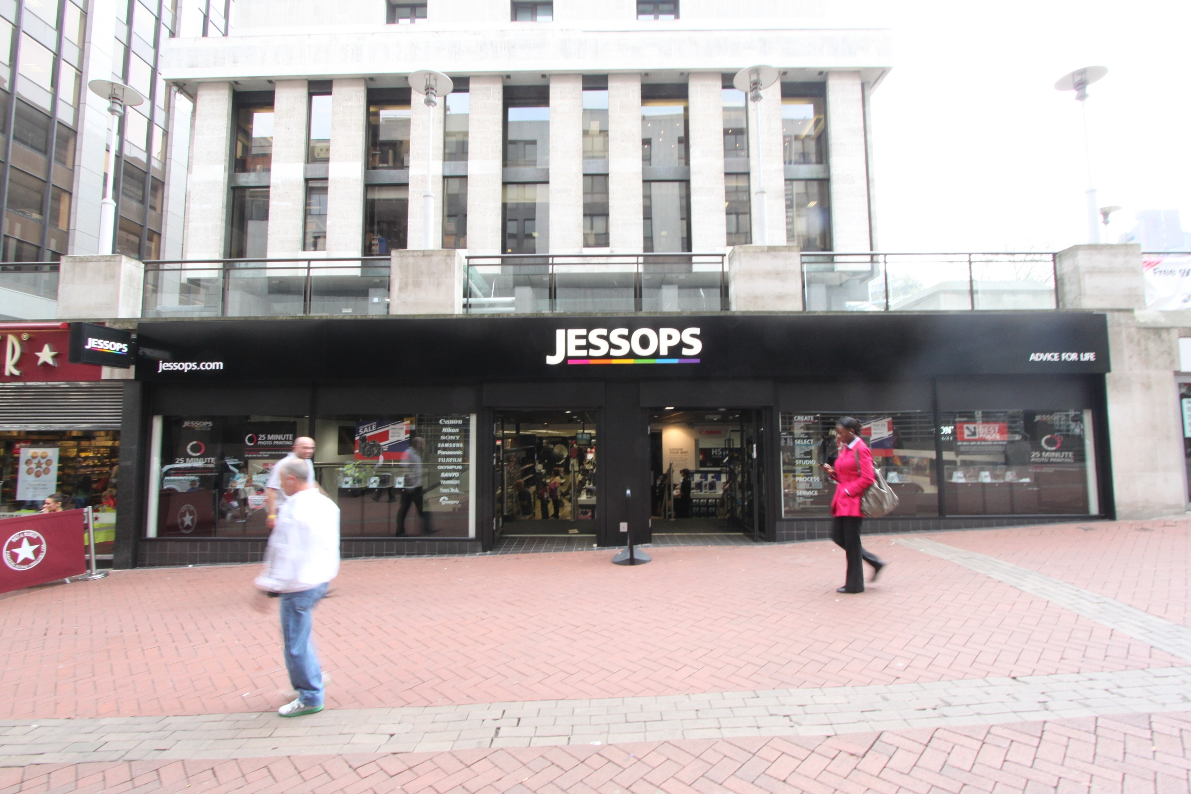 Jessops re-opened store in Birmngham